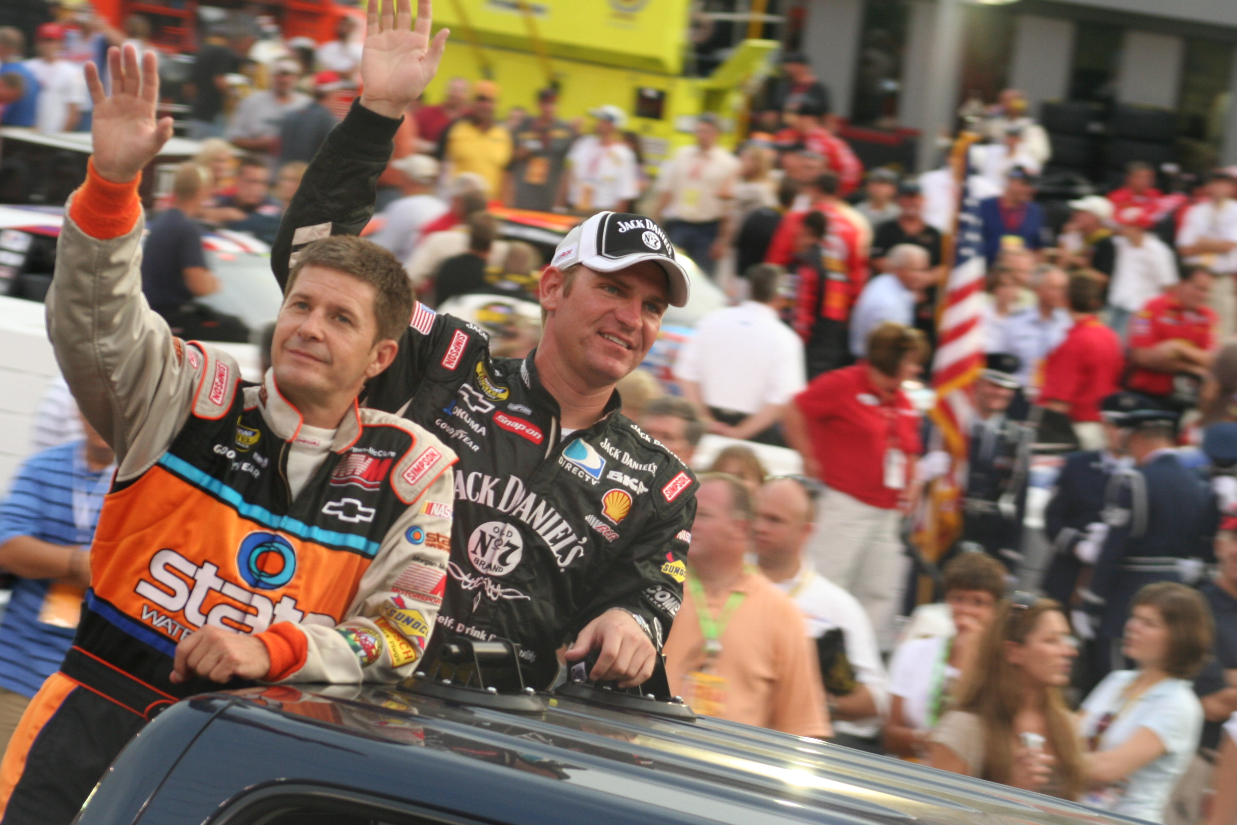 NASCAR drivers Ward Burton (left) and Clint Bowyer (right) before the August 2007 race at Bristol Motor Speedway